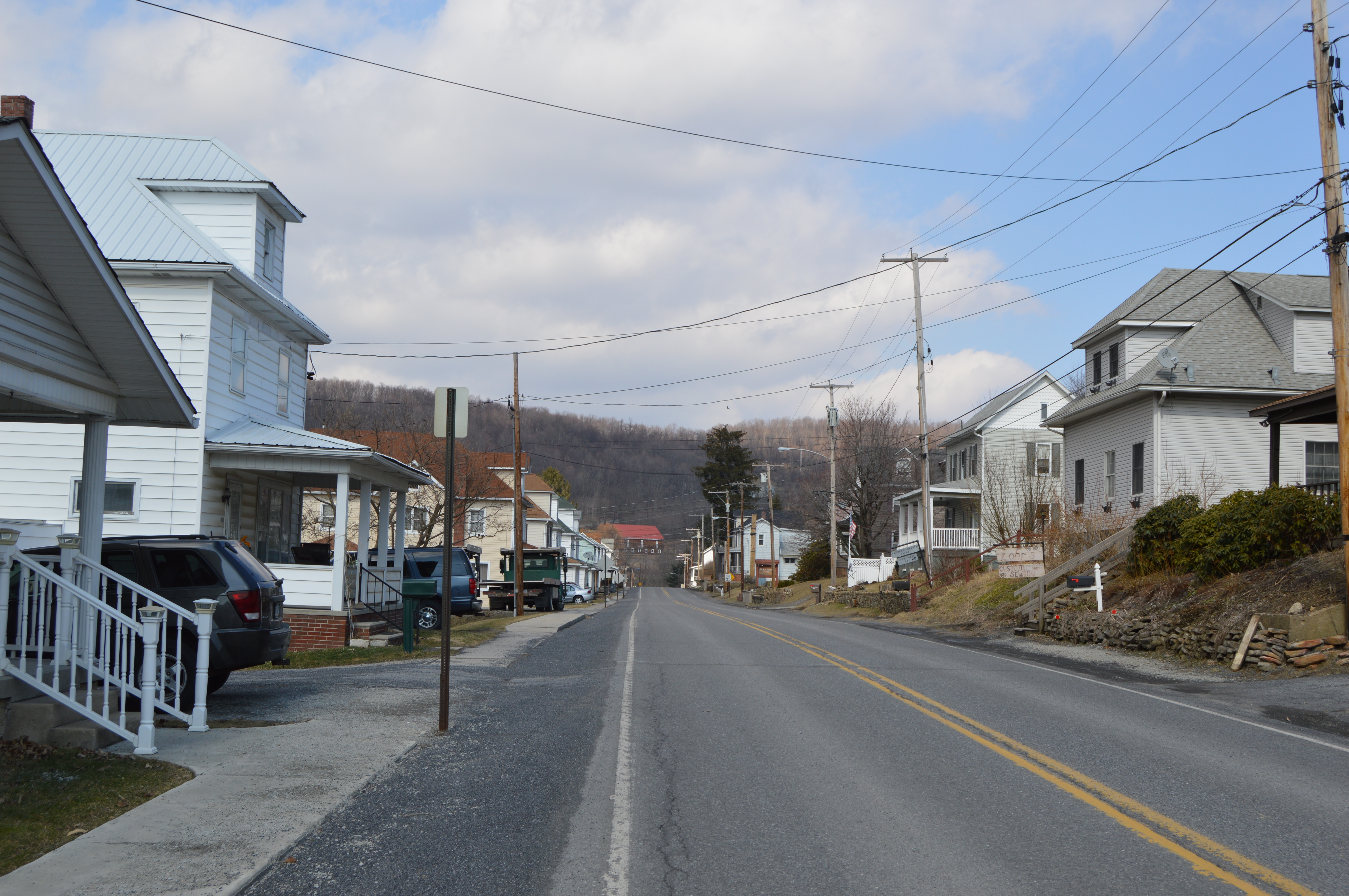 Looking north along Barn Street (Pennsylvania Route 403) from the South Street intersection in Hooversville, Pennsylvania, United States.